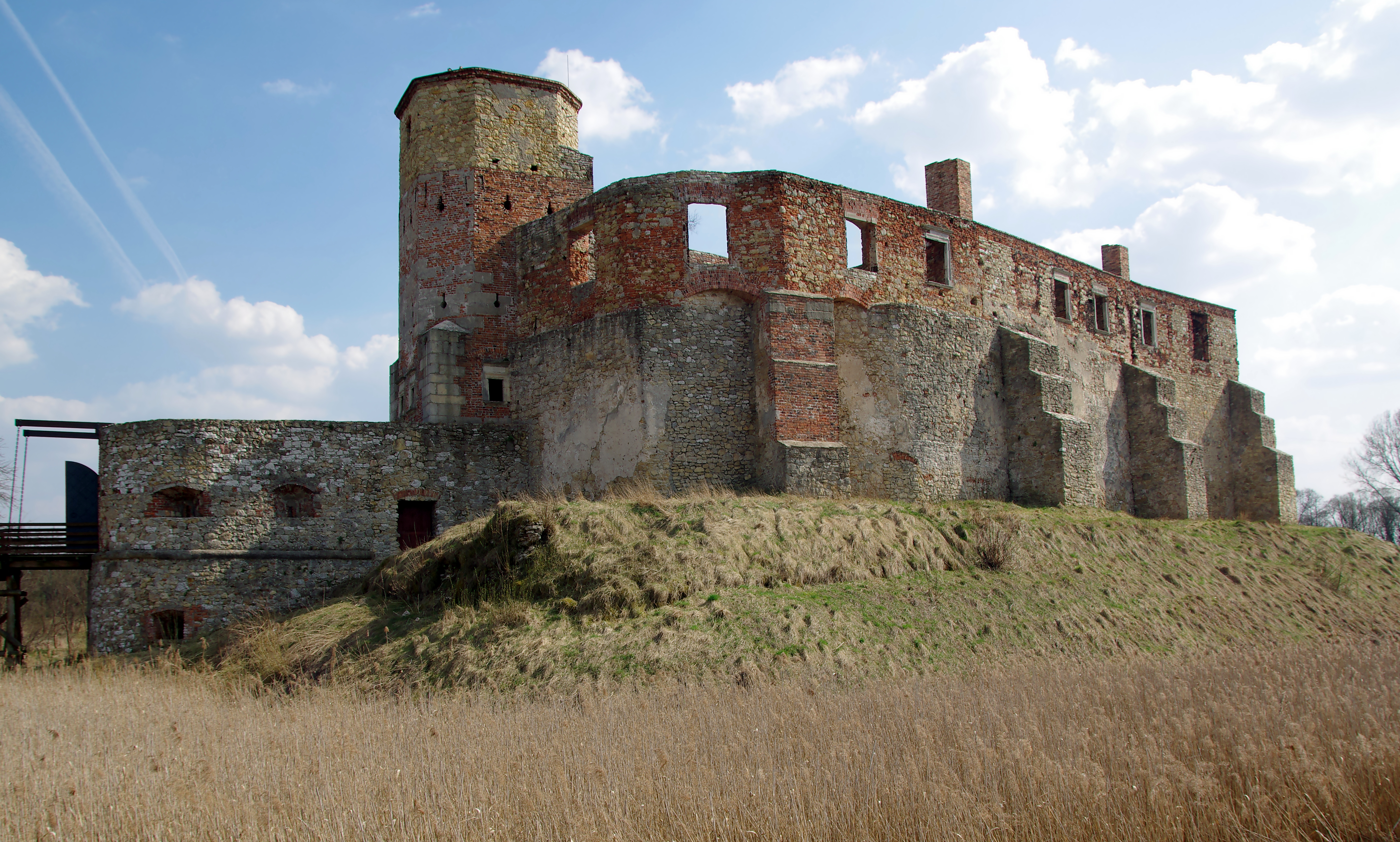 Castle in Siewierz